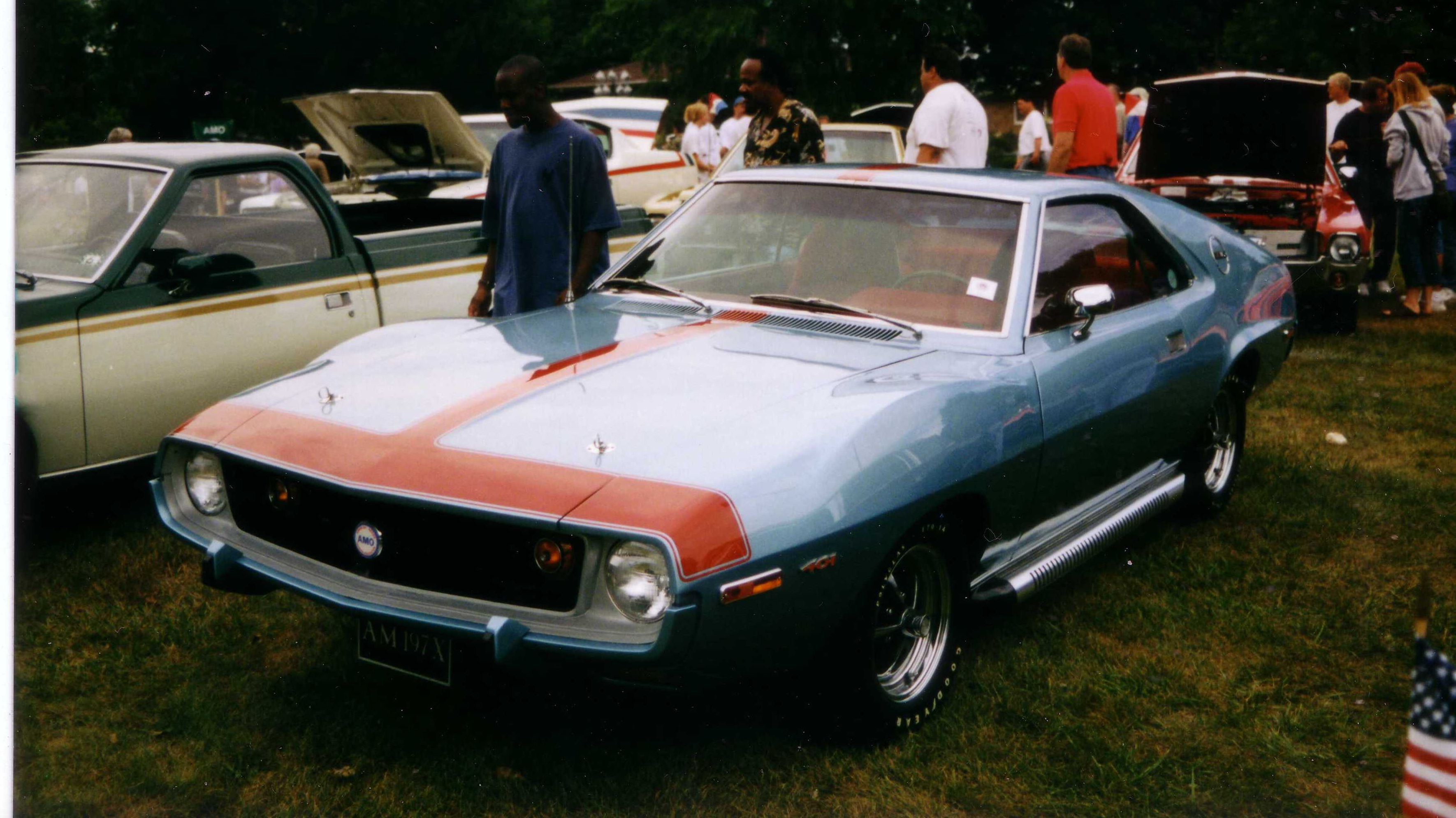 American Motors Corporation (AMC) AMX concept car (for 1971) prepared by AMC’s vice president for styling, Richard A. Teague, who wanted to continue the two-seat sports model. Photograph taken at the AMC 100th anniversary Rambler meet in Kenosha, Wisconsin.